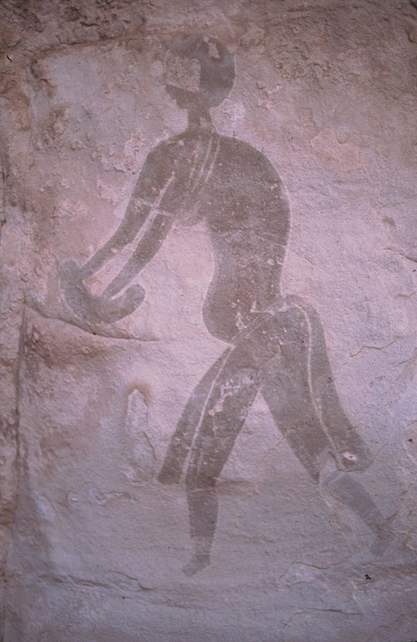 Painting called "Luck Lady". Female figure with mask.